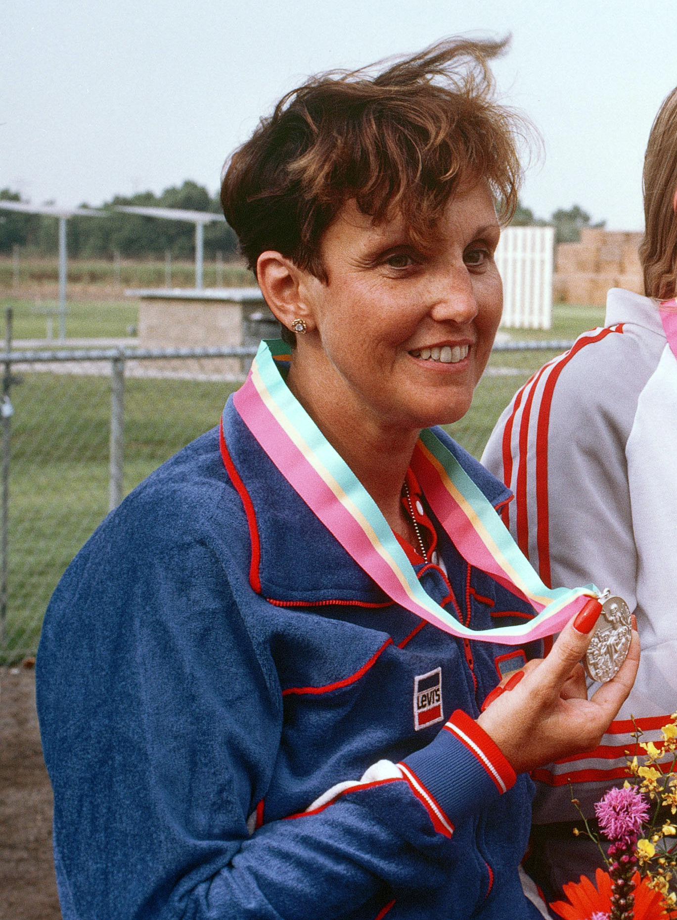 Army Specialist 5 Ruby E. Fox from Parker, Arizona, after receiving a silver medal in the sport pistol competition at the 1984 Summer Olympics. (excerpt from the original text)